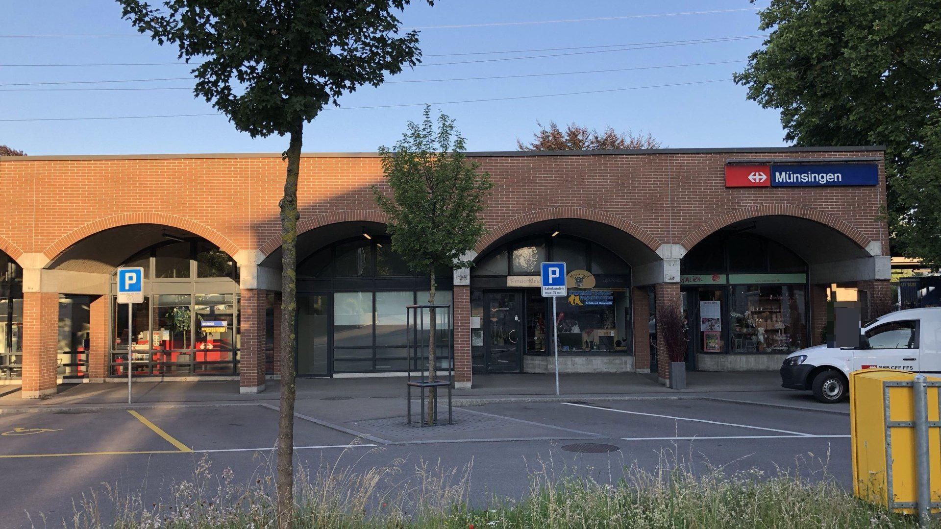 Münsingen railway station in Münsingen, Switzerland.